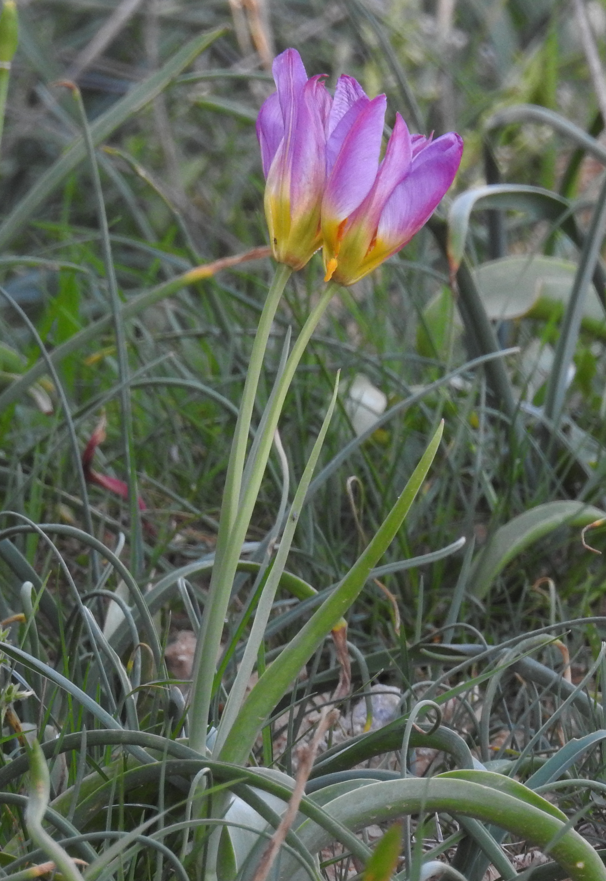 Tulipa saxatilis subsp. bakeri south of Omalos, Crete, Greece